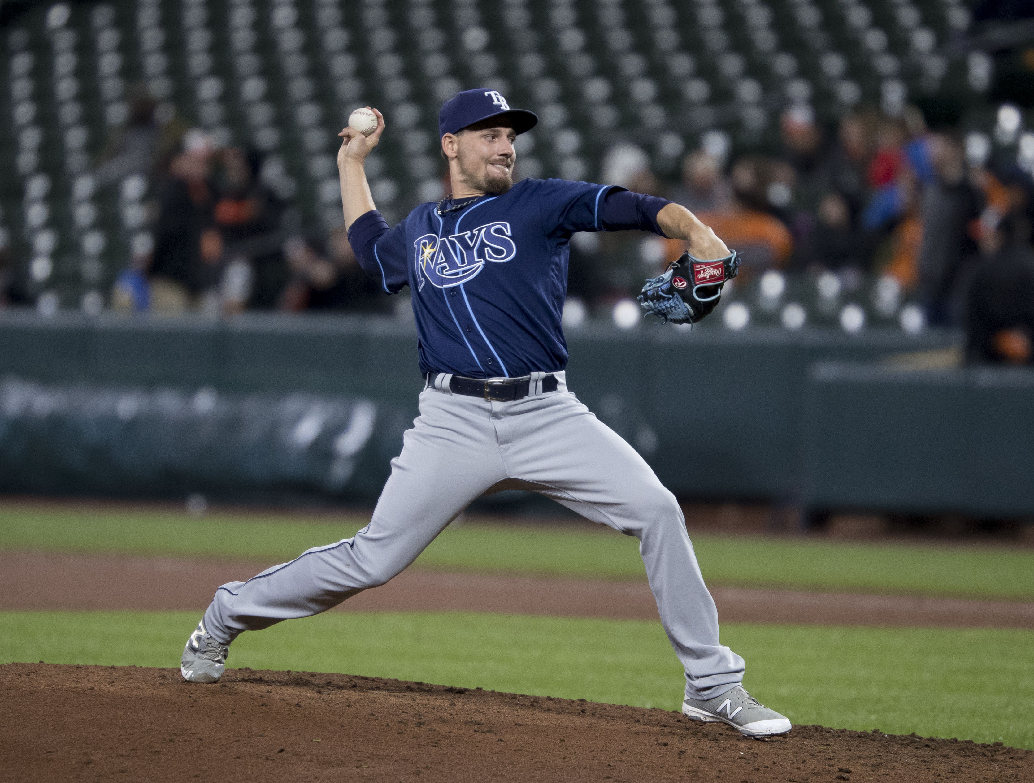 Rays at Orioles 4/25/17